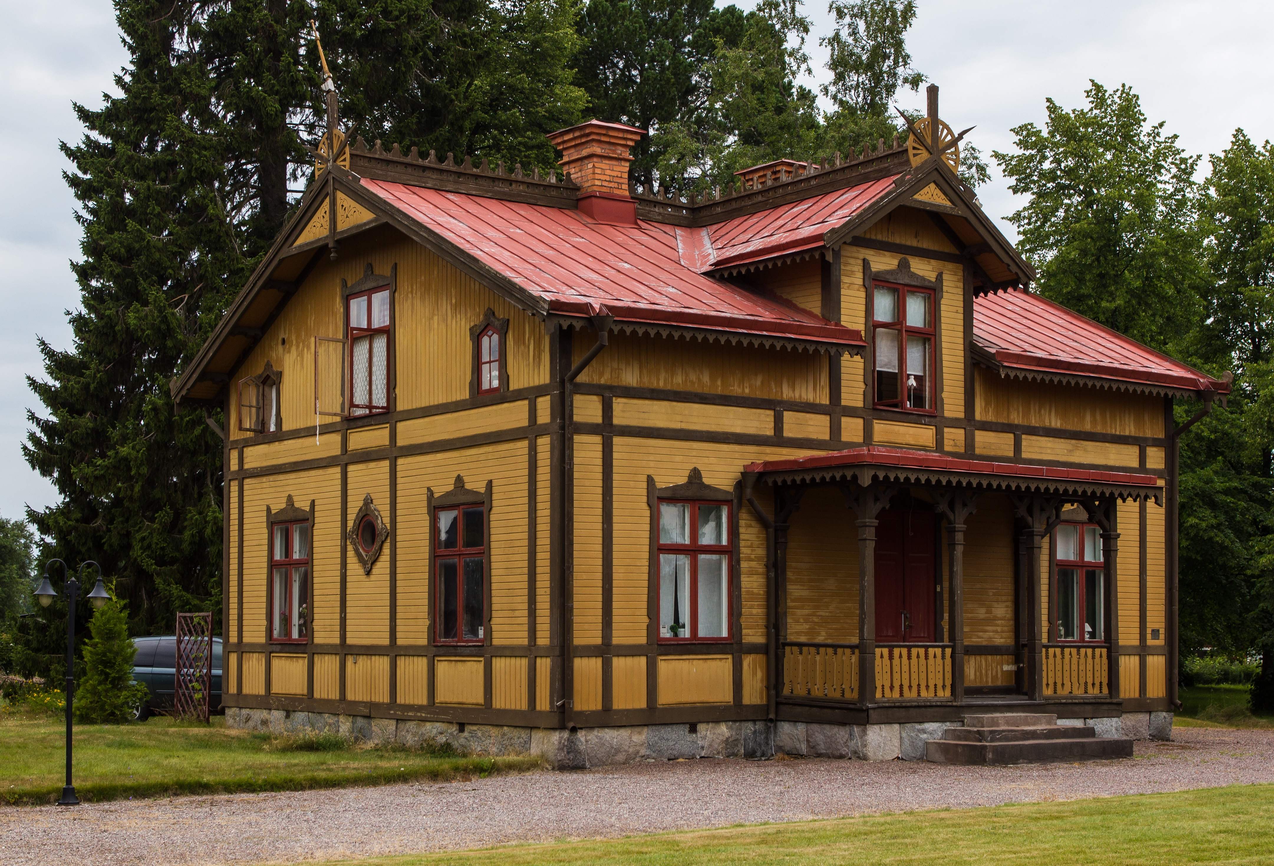 Rommehed (former) military camp, Borlänge, Sweden. Chief residence.